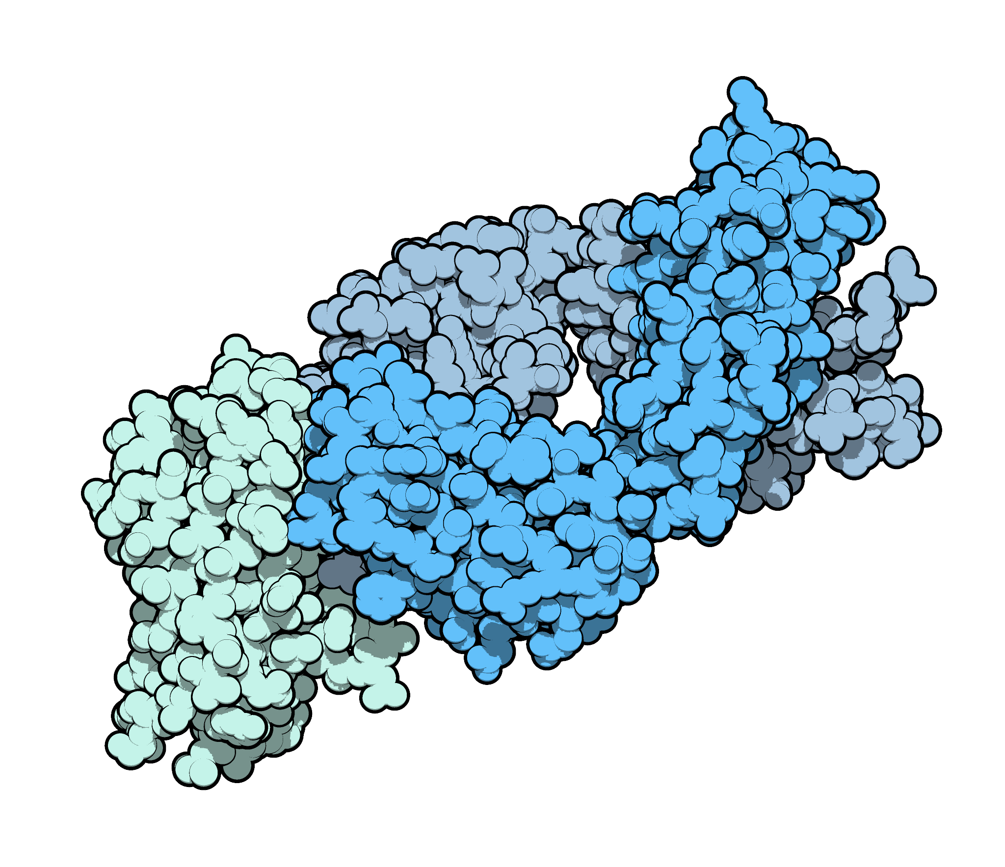 Space-filling model of the Fab fragment of the monoclonal antibody ipilimumab (blue) bound to its target, CTLA-4 (pale green). Style made to resemble the Protein Data Bank's "Molecule of the Month" series, illustrated by Dr. David S. Goodsell of the Scripps Research Institute. Created using QuteMol ( Optimized with OptiPNG.